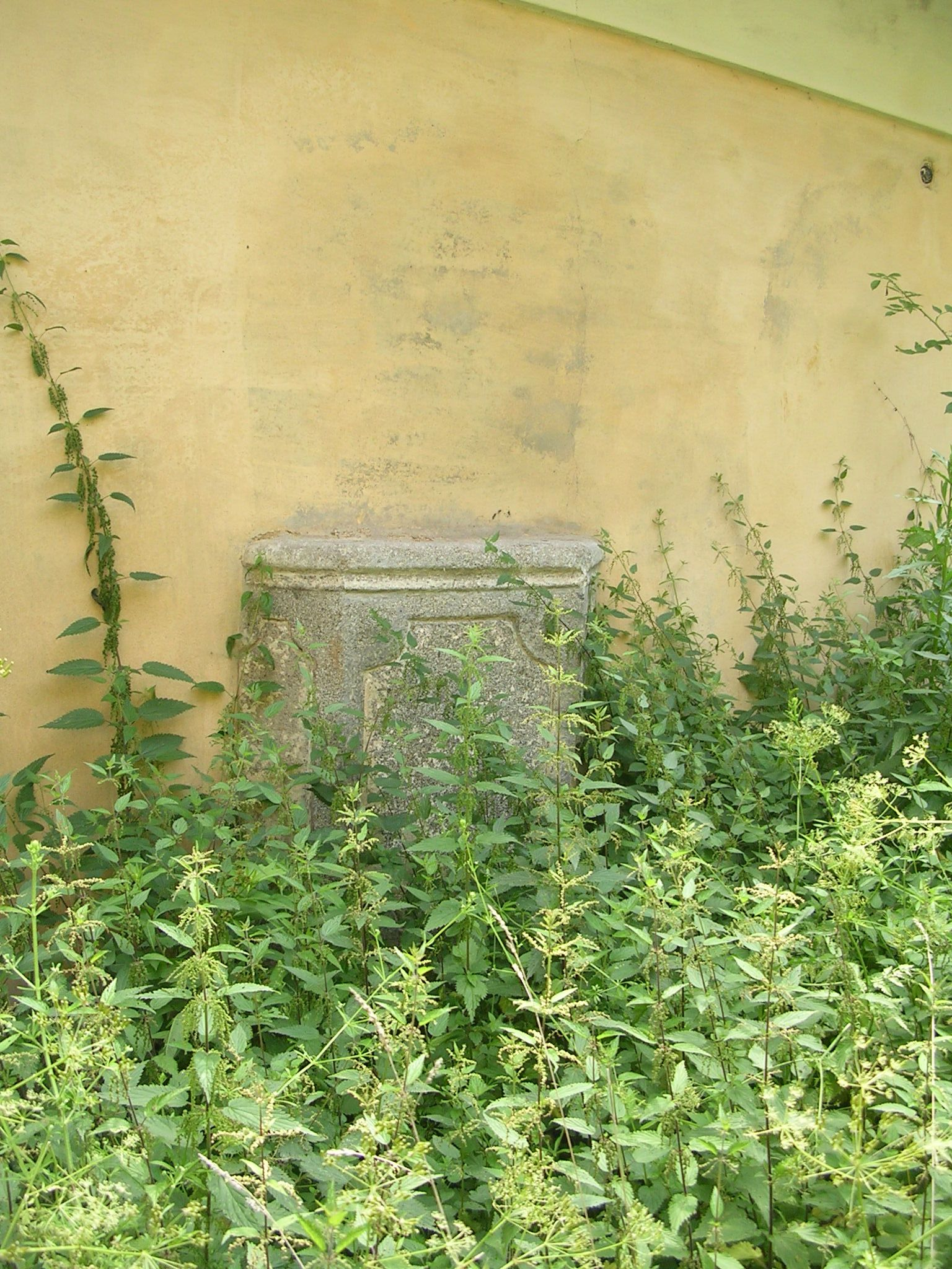 Vysoký Chlumec, Příbram District, Central Bohemian Region, the Czech Republic. Desert of St Mark, a keep house converted from a chapel.